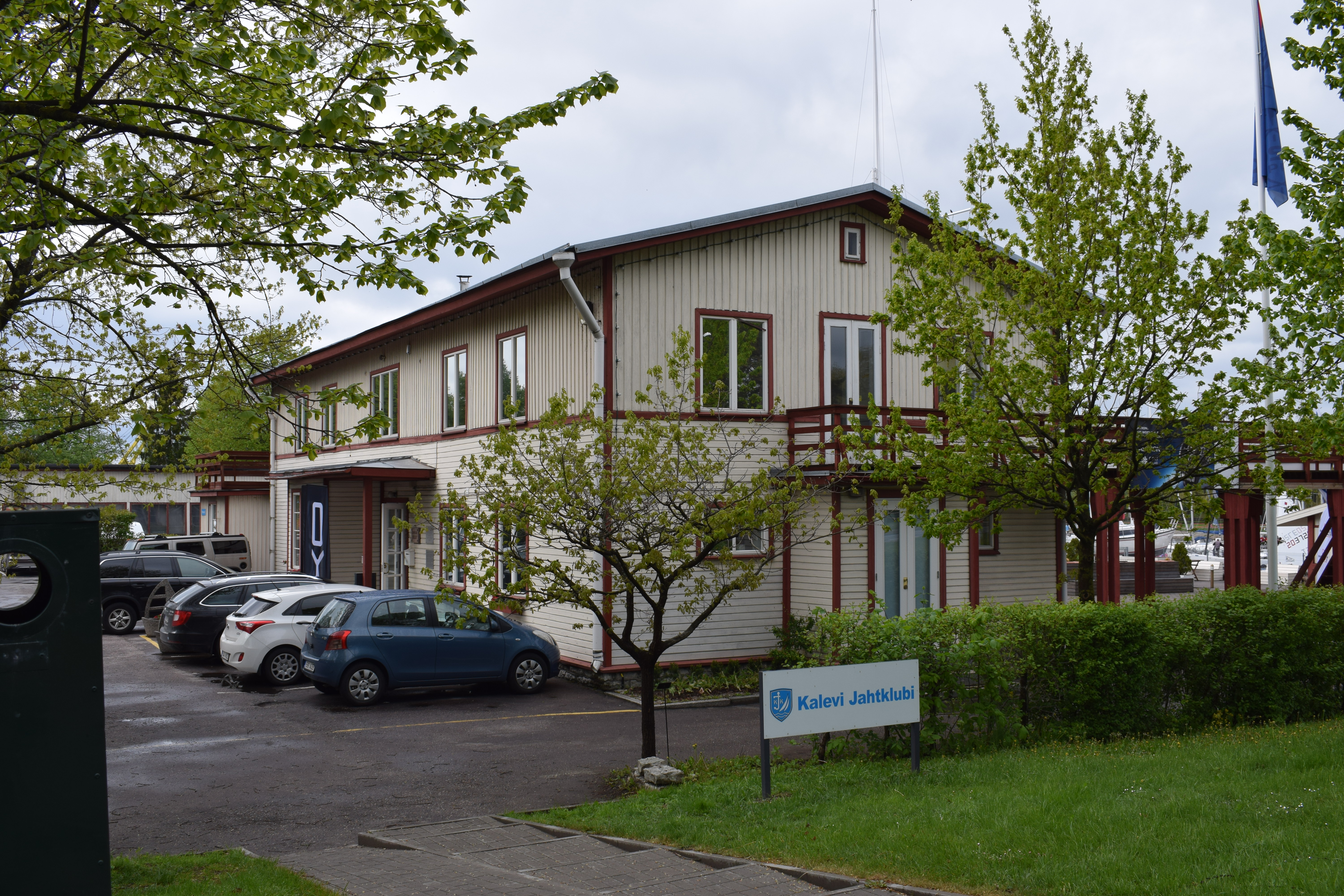 Tallinn